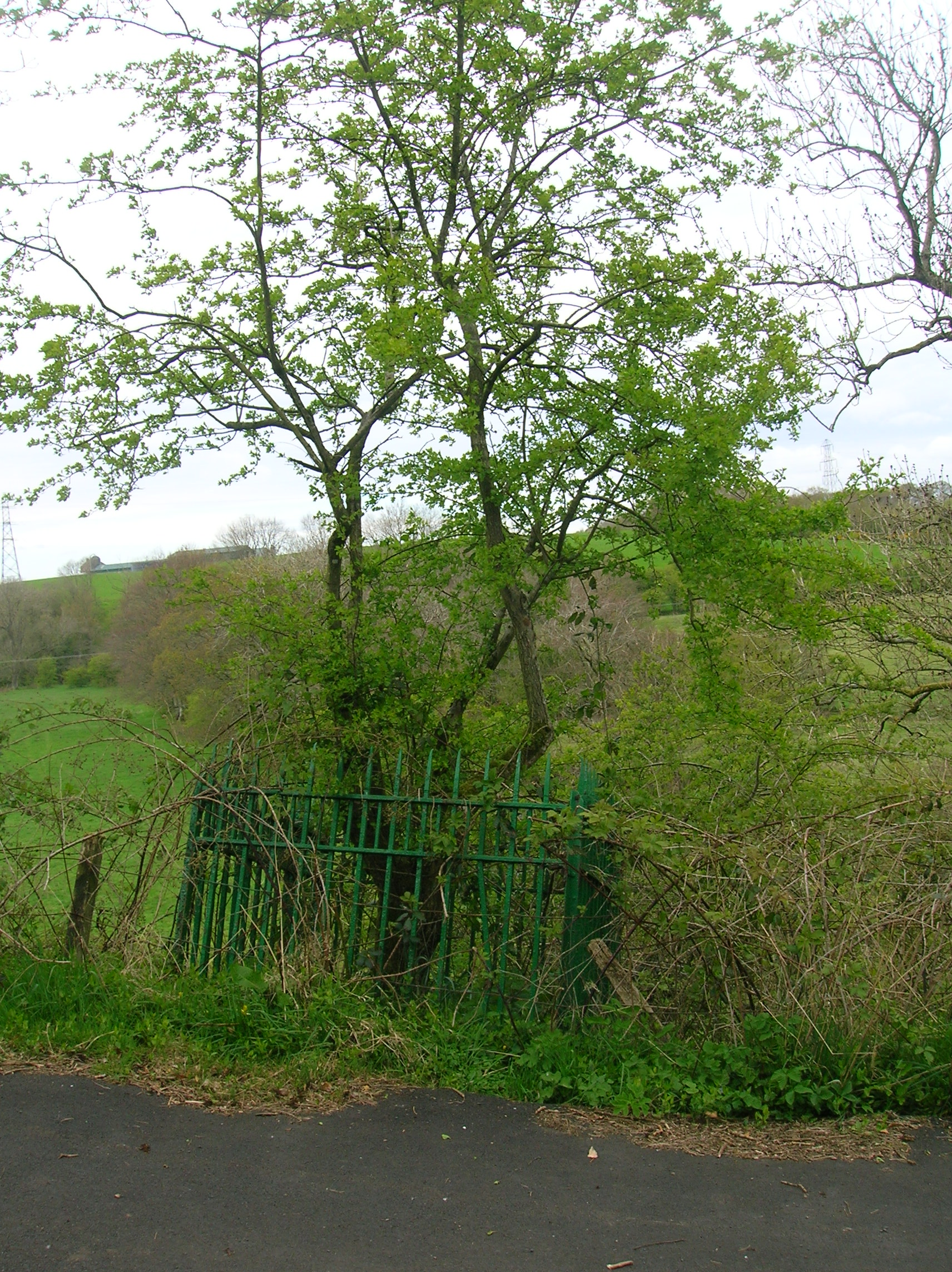 The Trysting Tree, Millmannoch, East Ayrshire, Scotland.